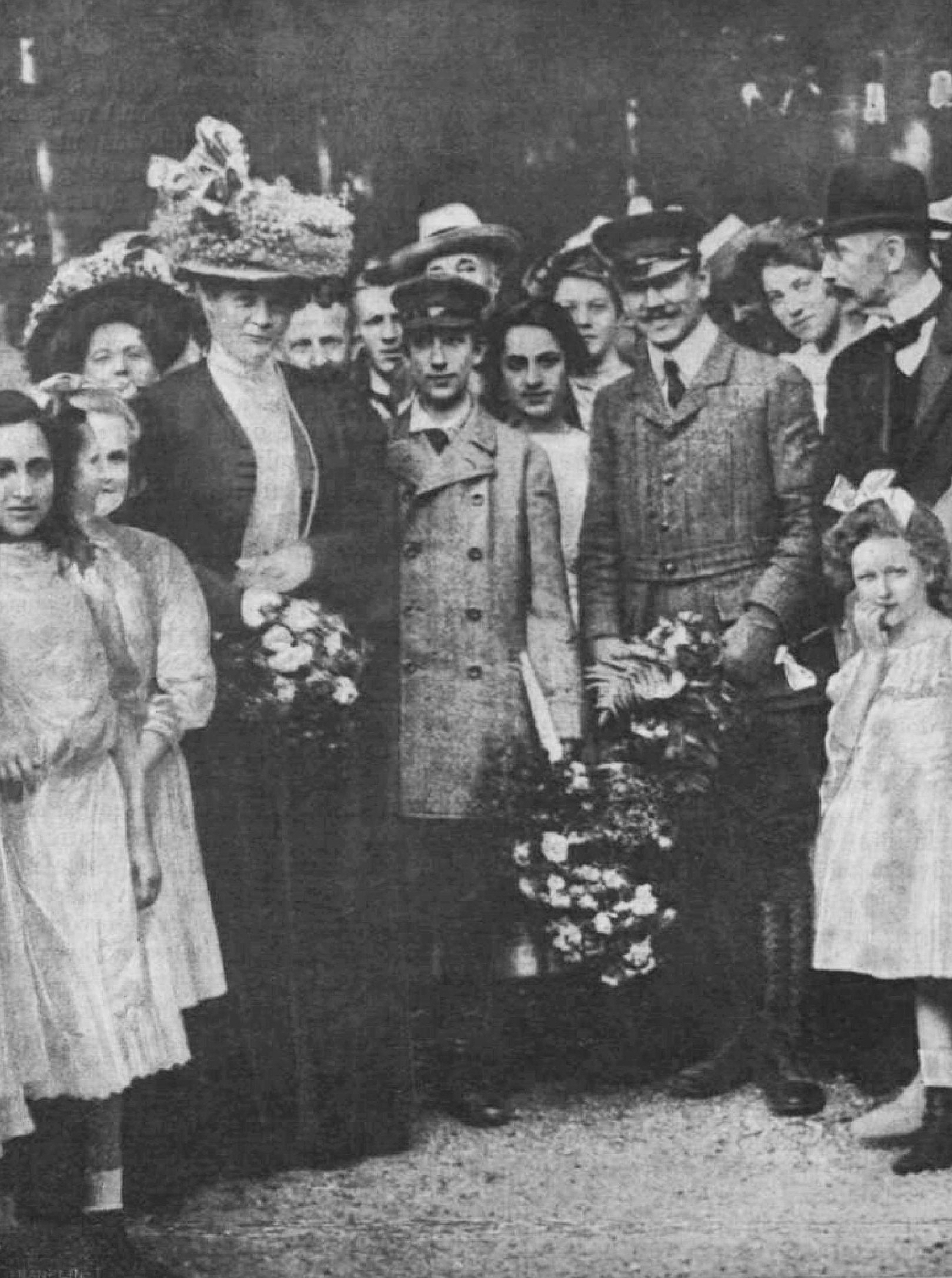 Eleonora of Bulgaria and her son